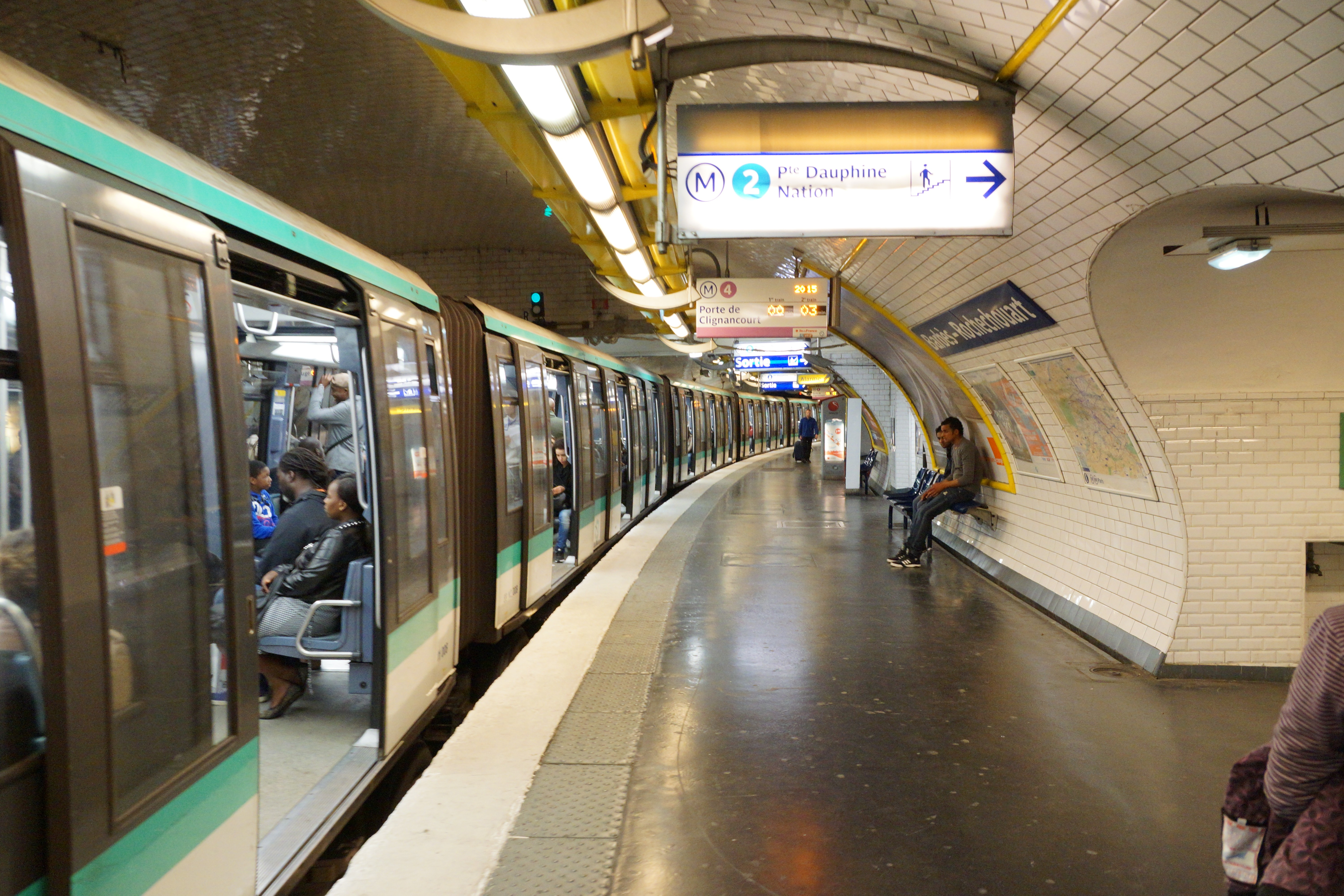 Barbès - Rochechouart metro station, Paris.